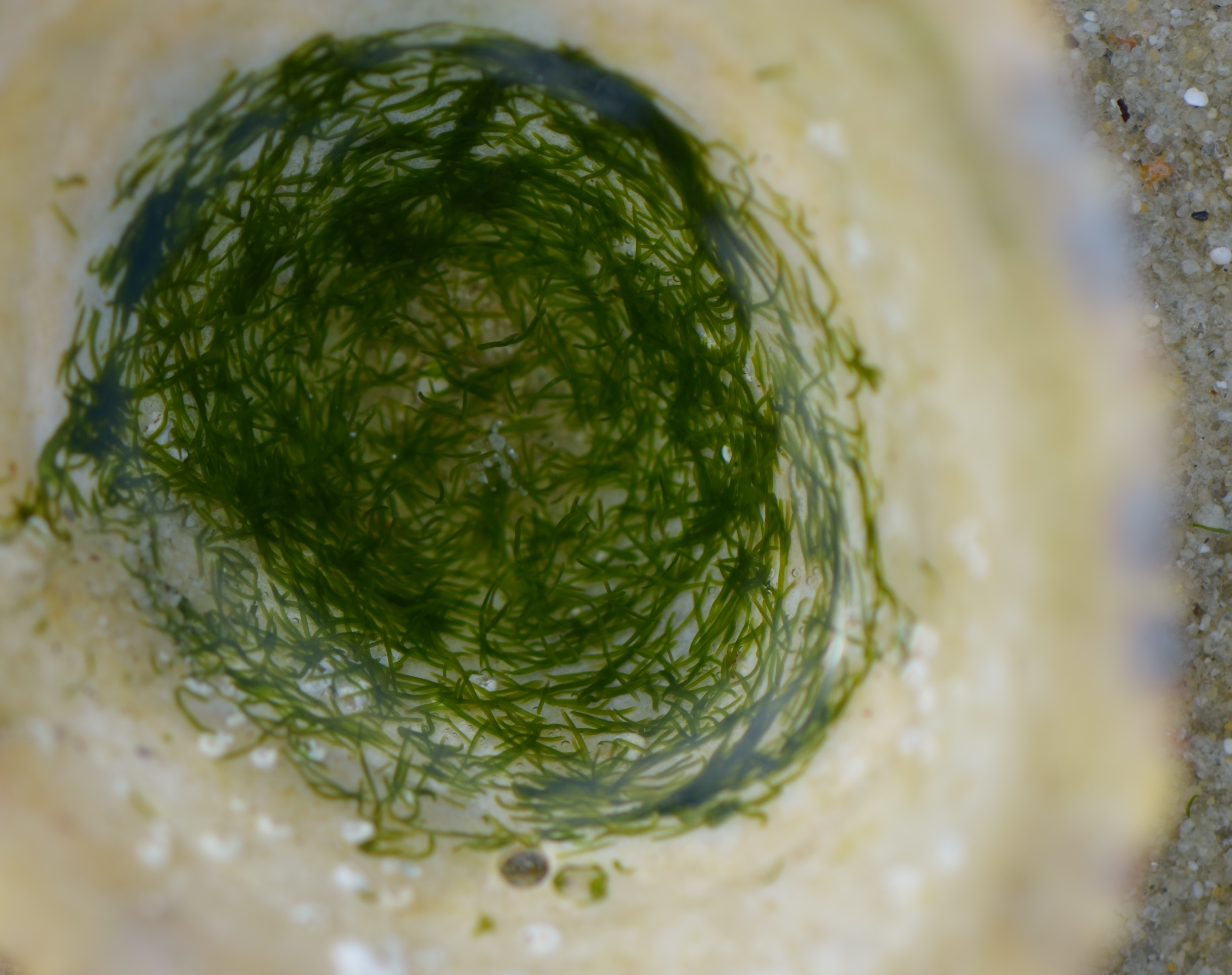 Symsagittifera roscoffensis scooped by a shell.